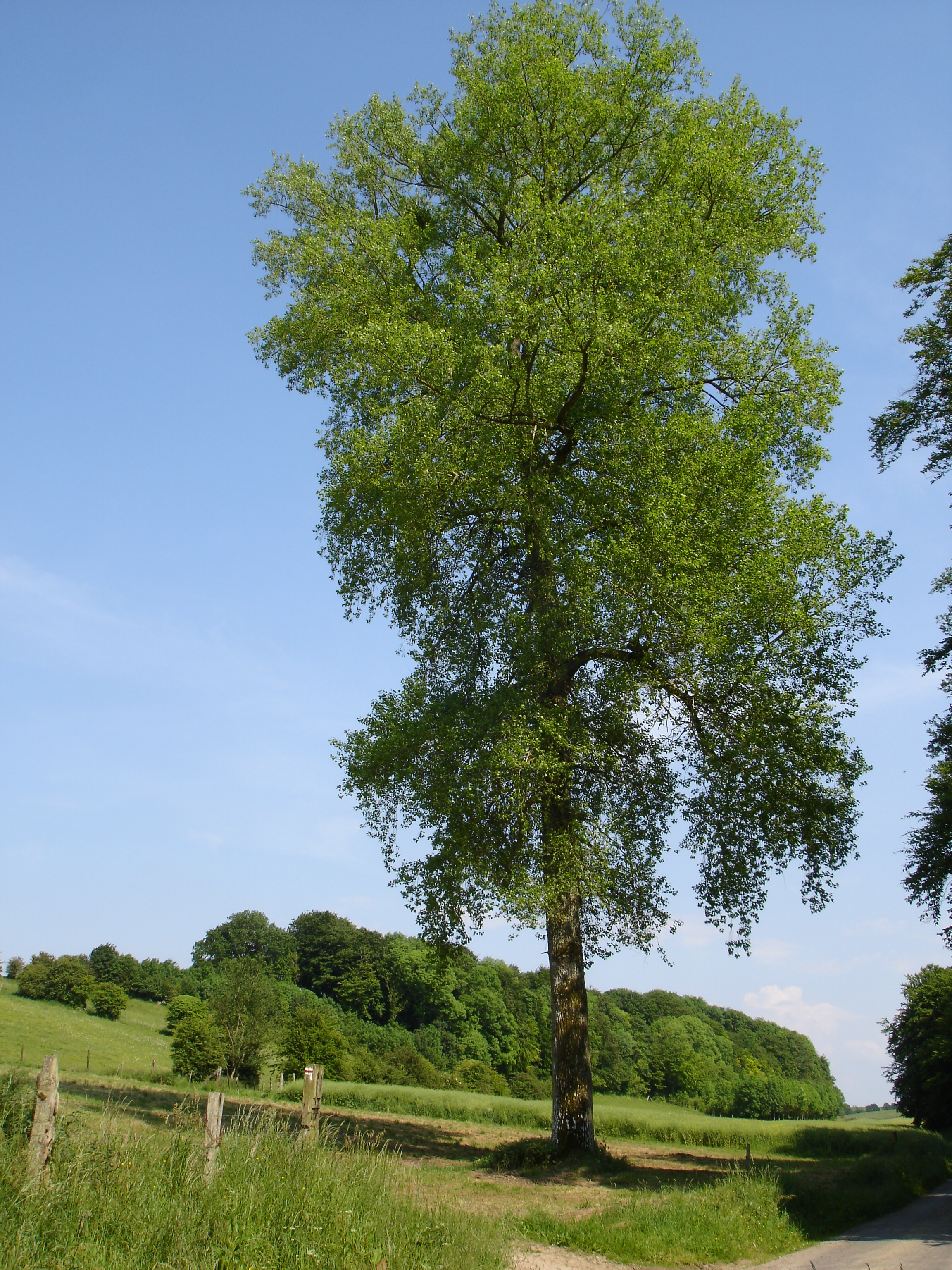 GR 123 way at the crossroad of the Wood of Caumont and the ravine of Goulaffre on the communal territory of Mouriez